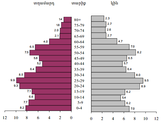 population of Kotayk, Armenia